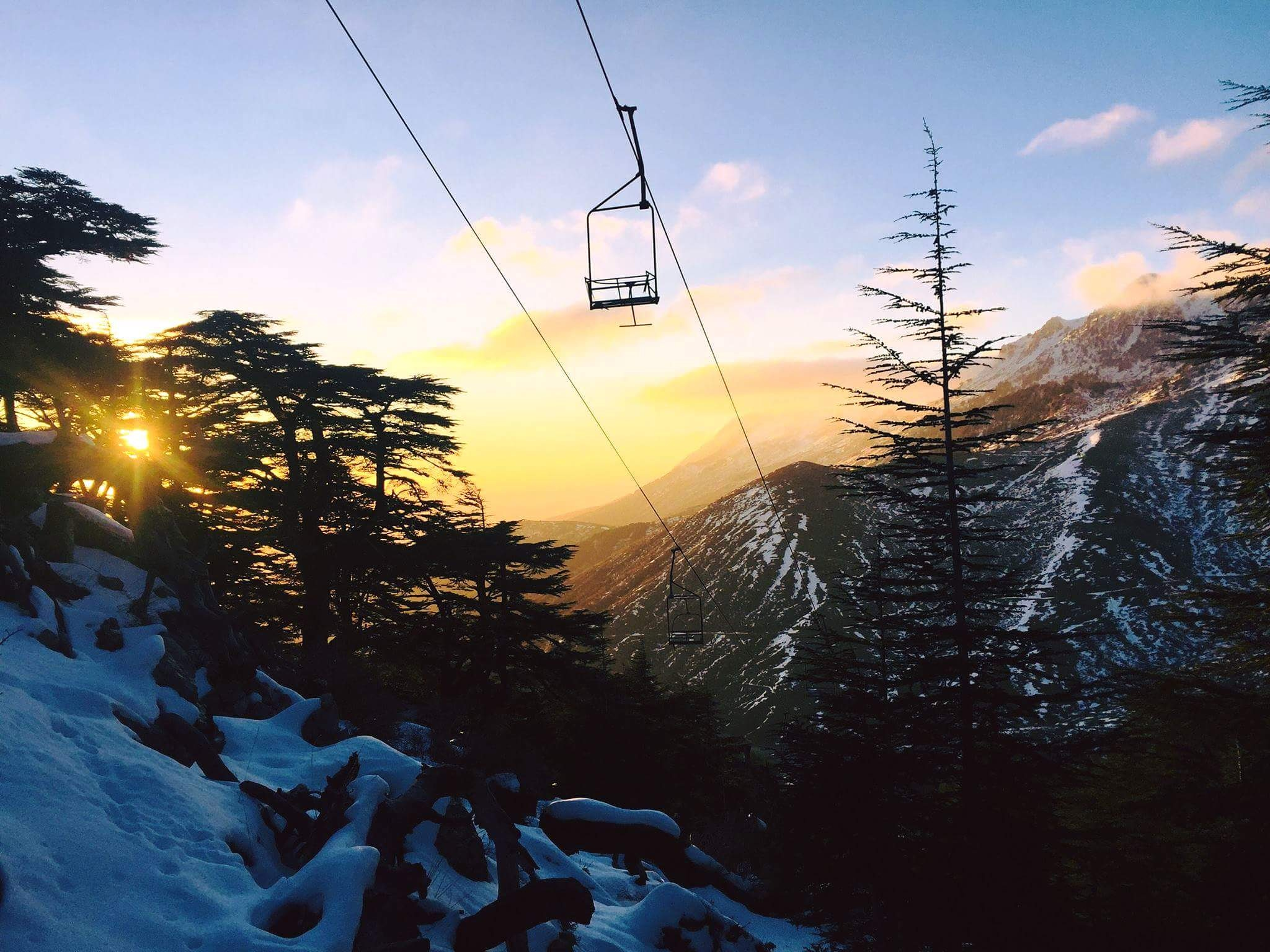 White dress tekdjda algeria Feeling peac This is an image with the theme "Play" from: Algeria